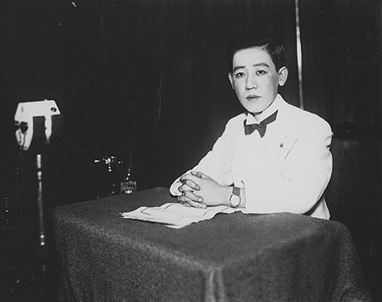 Yoshiko Kawashima (1907–48)